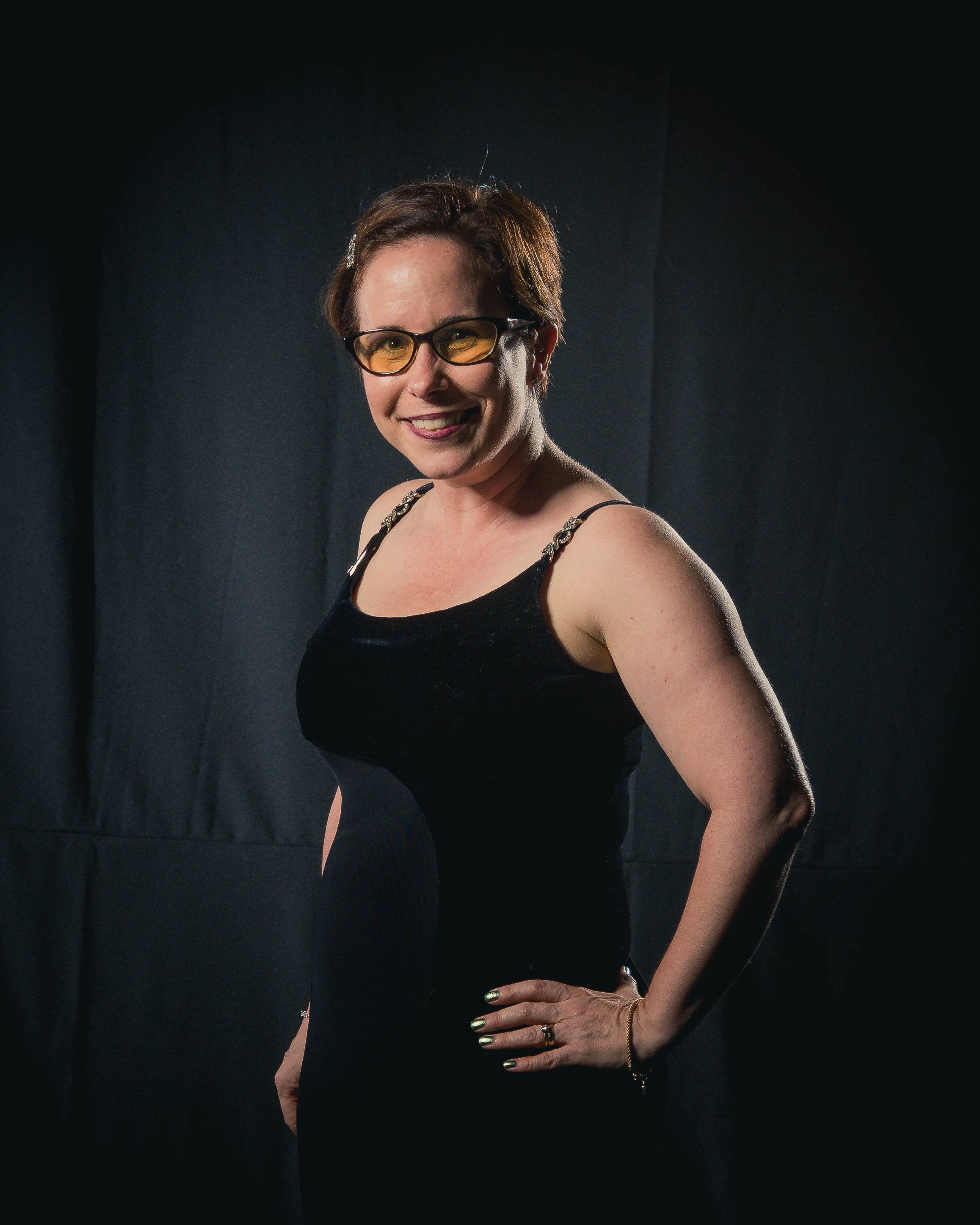 Portrait photoshoot at Worldcon 75, Helsini, before the Hugo Awards: Fran Wilde.